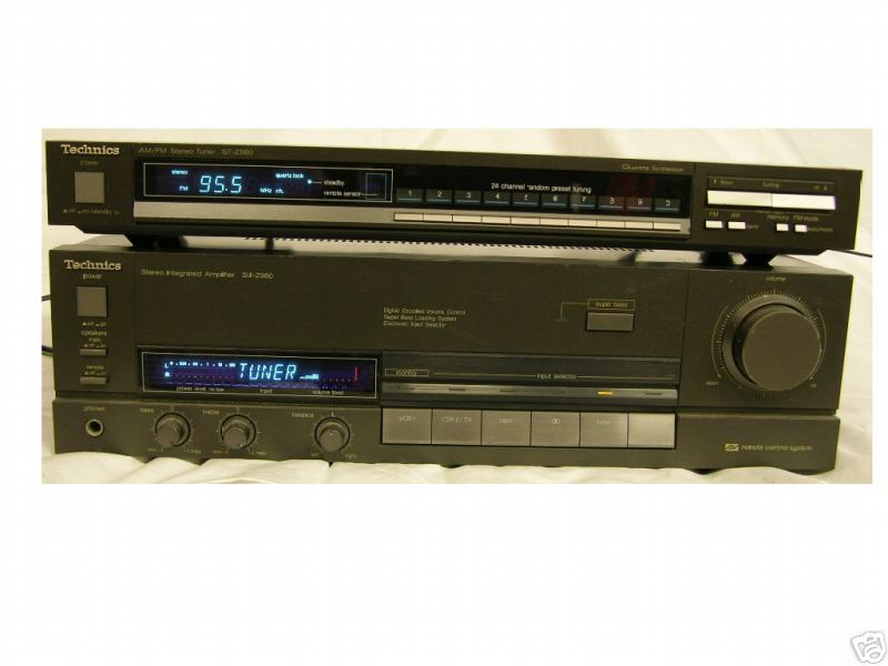 Technics SU-Z980 120 watt Integrated Stereo Amplifier and matching ST-Z980 AM/FM Tuner (Mid 1980's)